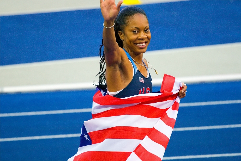 Sanya Richards, world champion in 400 m distance, on ring of honour